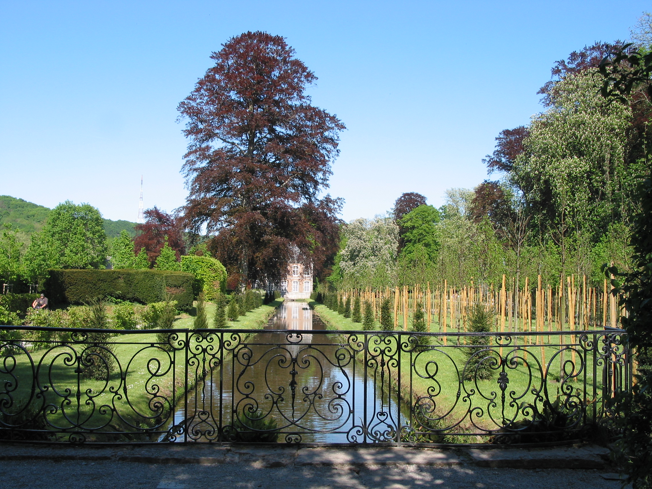 Annevoie-Rouillon (Belgium), the castel garden with its basins, ponds, water jets, fountains, cascades and its « Grand Canal » (XVII XVIIIth centuries).